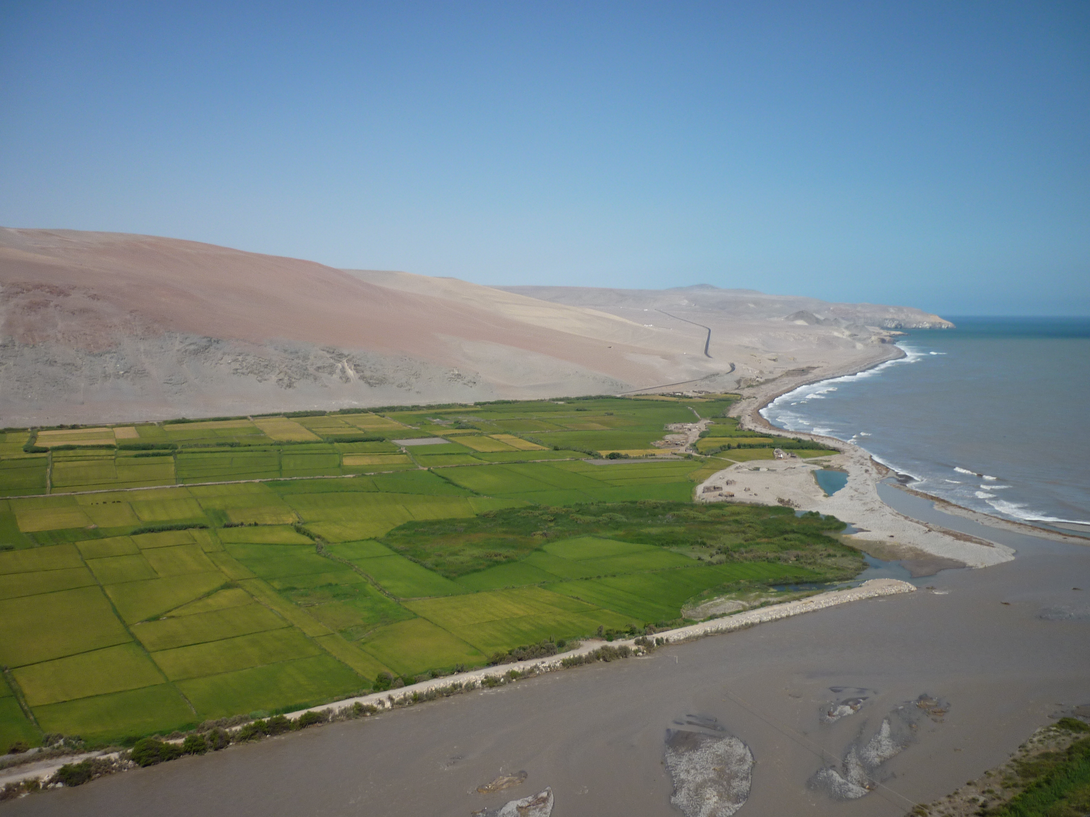 Mouth of Río Ocoña at the Pacific Ocean. Rice fields besides the river.